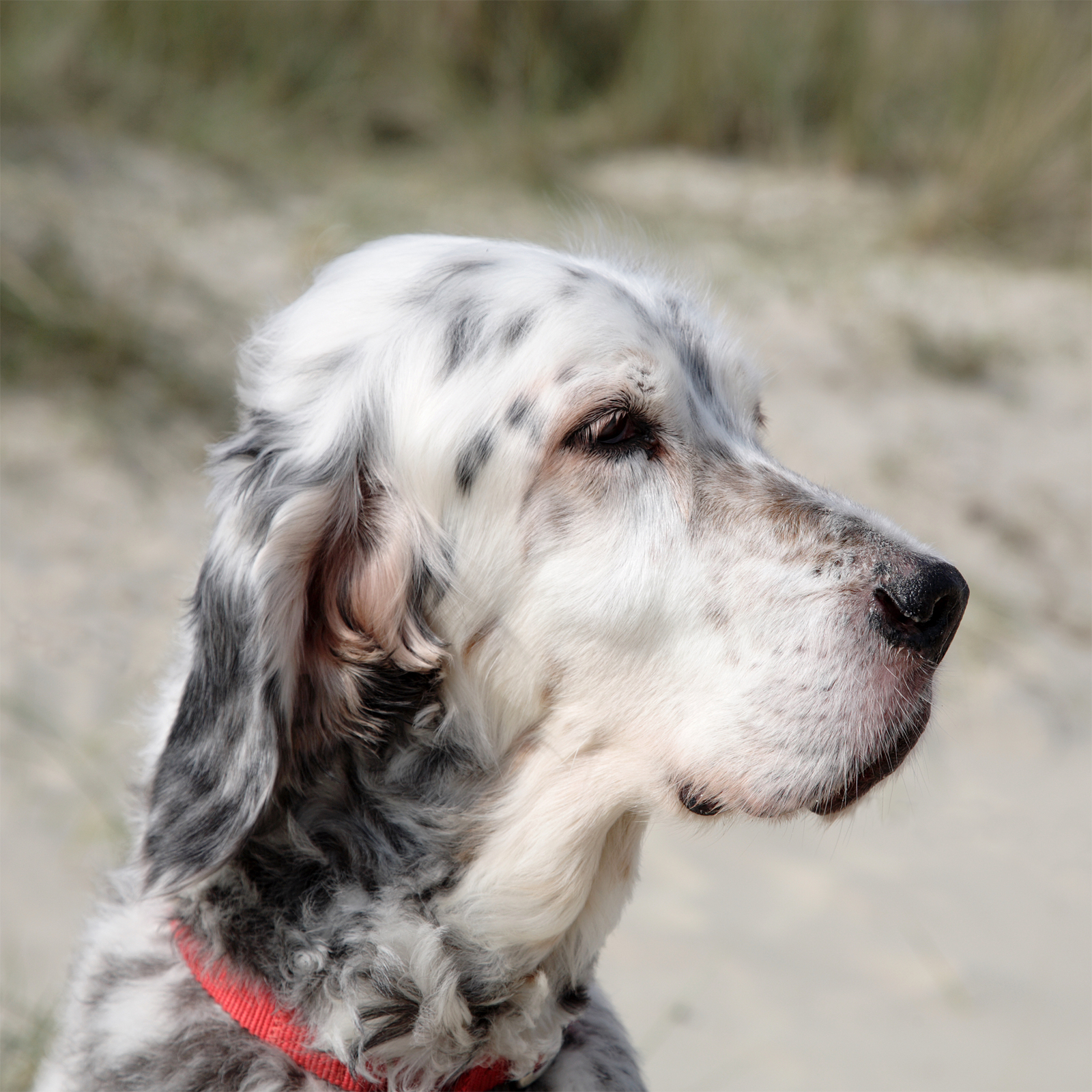 A 12 year old English Setter.